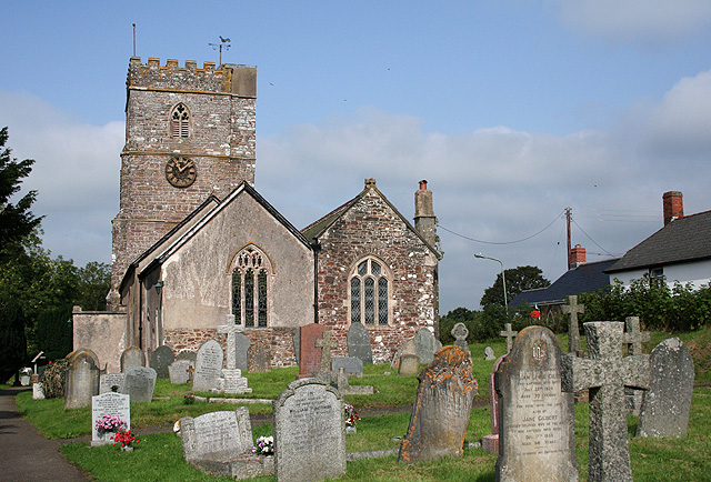 Rackenford: All Saints church. The building was closed to visitors in September 2006 while conservation and repair work was undertaken by a specialist masonry firm. The nearby 12th century Stag Inn predates the church. Looking west-north-west